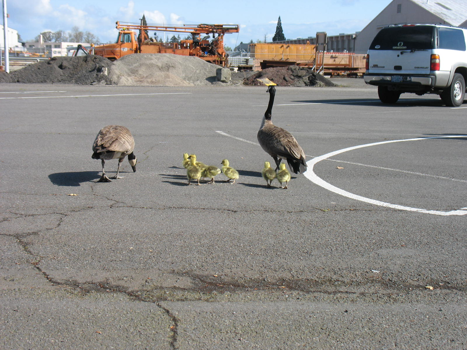 These are of a family of geese (Branta canadensis) who are living in a pile of aggregate at the ODOT East Salem Compound. Employees working at the East Salem Compound watched the Canadian goose sitting on top of the pile of aggregate. She seemed to be patiently waiting for something to happen. They soon figured out that she and her partner were waiting for eggs to hatch. On April 19, employees got their first look at the gaggle of goslings. The seven babies tumbled out of the nest and rolled down the aggregate pile and promptly went for a stroll around the parking lot. The proud parents kept keen eyes on their new family as they enjoyed the spring sunshine.